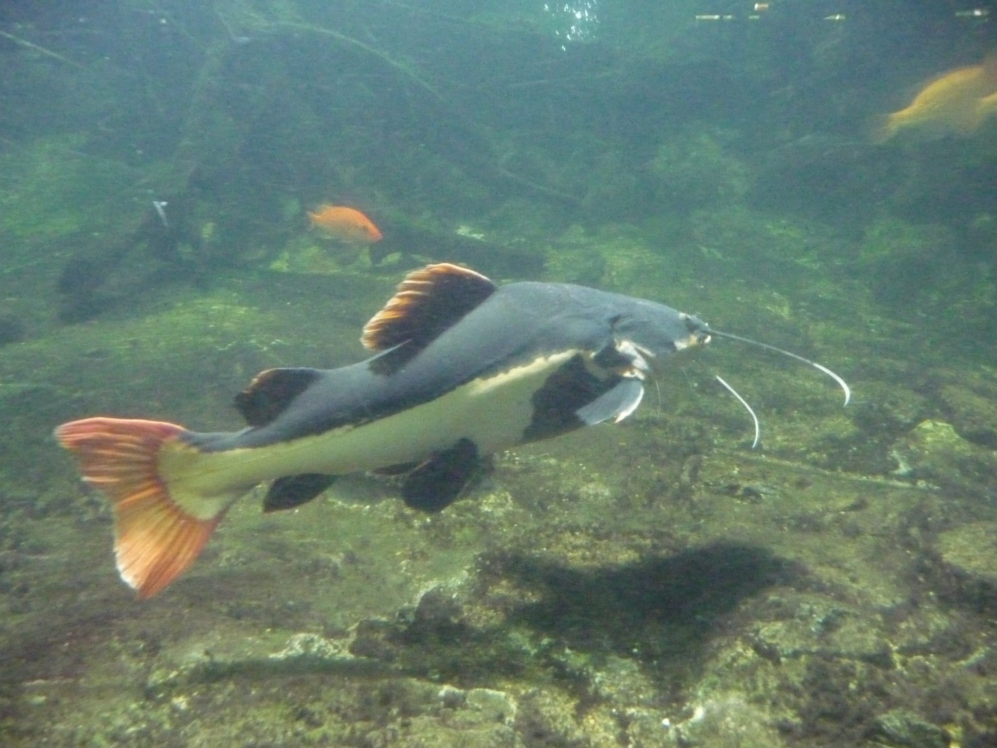 Phractocephalus hemioliopterus